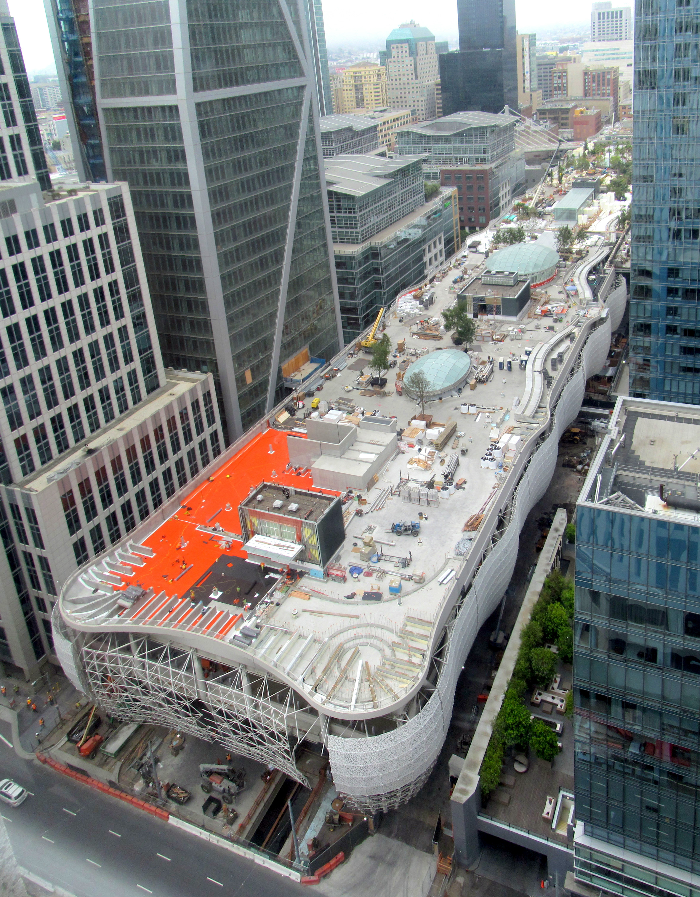 Transbay Transit Center under construction in August 2017, viewed from the TJPA office